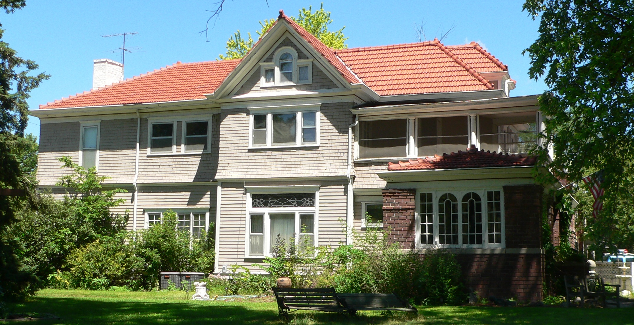 Nowlan-Dietrich House at 1105 N. Kansas Avenue in Hastings, Nebraska; seen from the south (11th Street). The house was built in 1886; it is listed in the National Register of Historic Places.